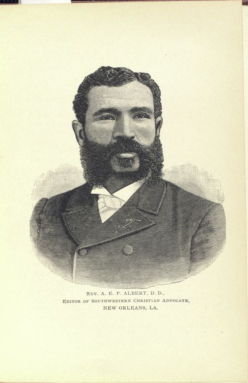 Rev. A. E. P. Albert, D. D., Editor of Southwestern Christian Advocate, 1890